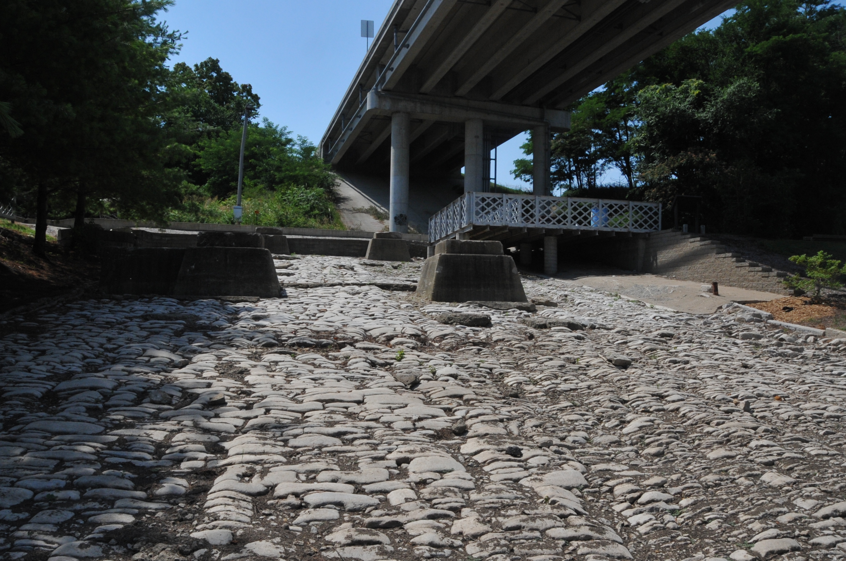 THE FIFTH STREET COBBLESTONE PAVEMENT IS A SURVIVING VESTIGE OF BOONVILLE'S COMMERCIAL PROMINENCE DURING THE ANTEBELLUM PERIOD. LOCATED ALONG A STEEP HILLSLOPE CALLED WHARF HILL, THE COBBLESTONE STREET ENHANCED A THRIVING RIVER TRADE BY SERVING AS THE PRINCIPAL ARTERY BETWEEN THE CITY'S COMMERCIAL DISTRICT AND THE RIVERFRONT WHARVES.